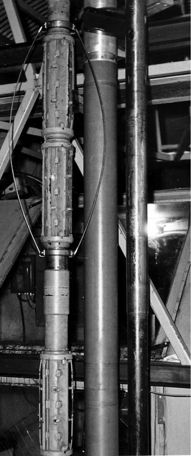 Anti-torque mechanisms on the 1960s CRREL EM drill, showing leaf springs and hinged friction blades